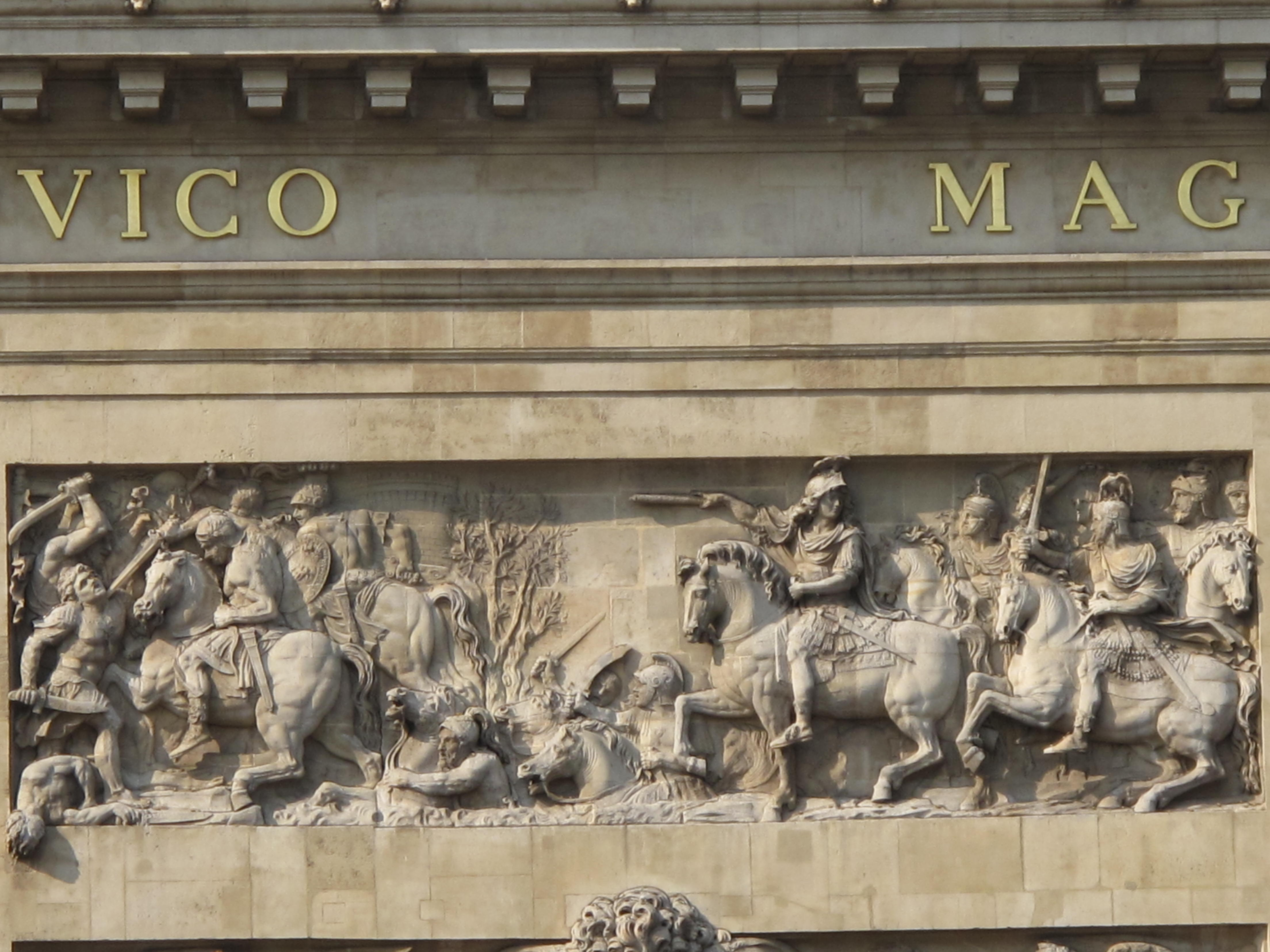 Relief on the south face of the porte Saint-Denis, Paris : the crossing of the Rhine